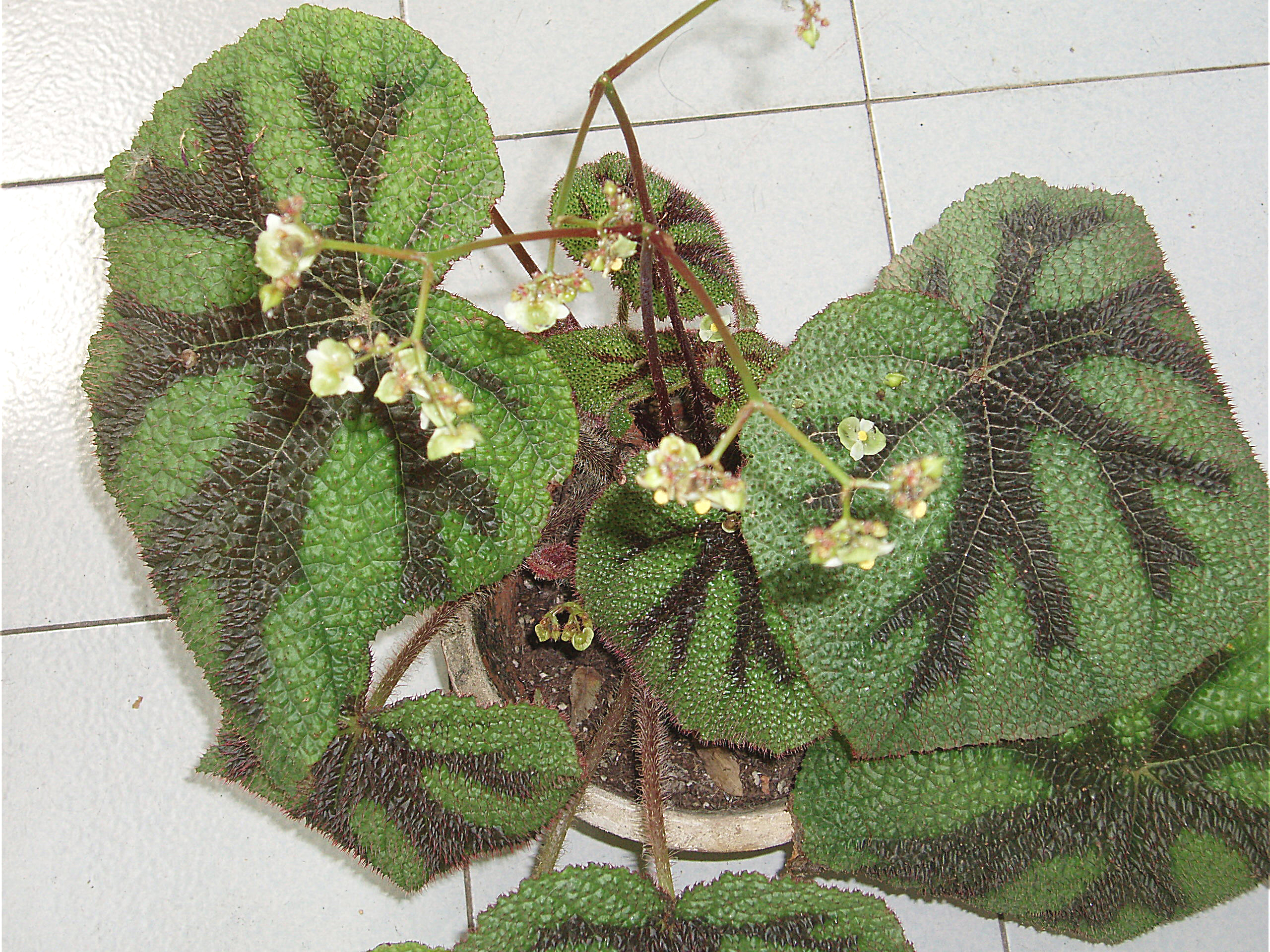 Flowers of Iron Cross Begonia